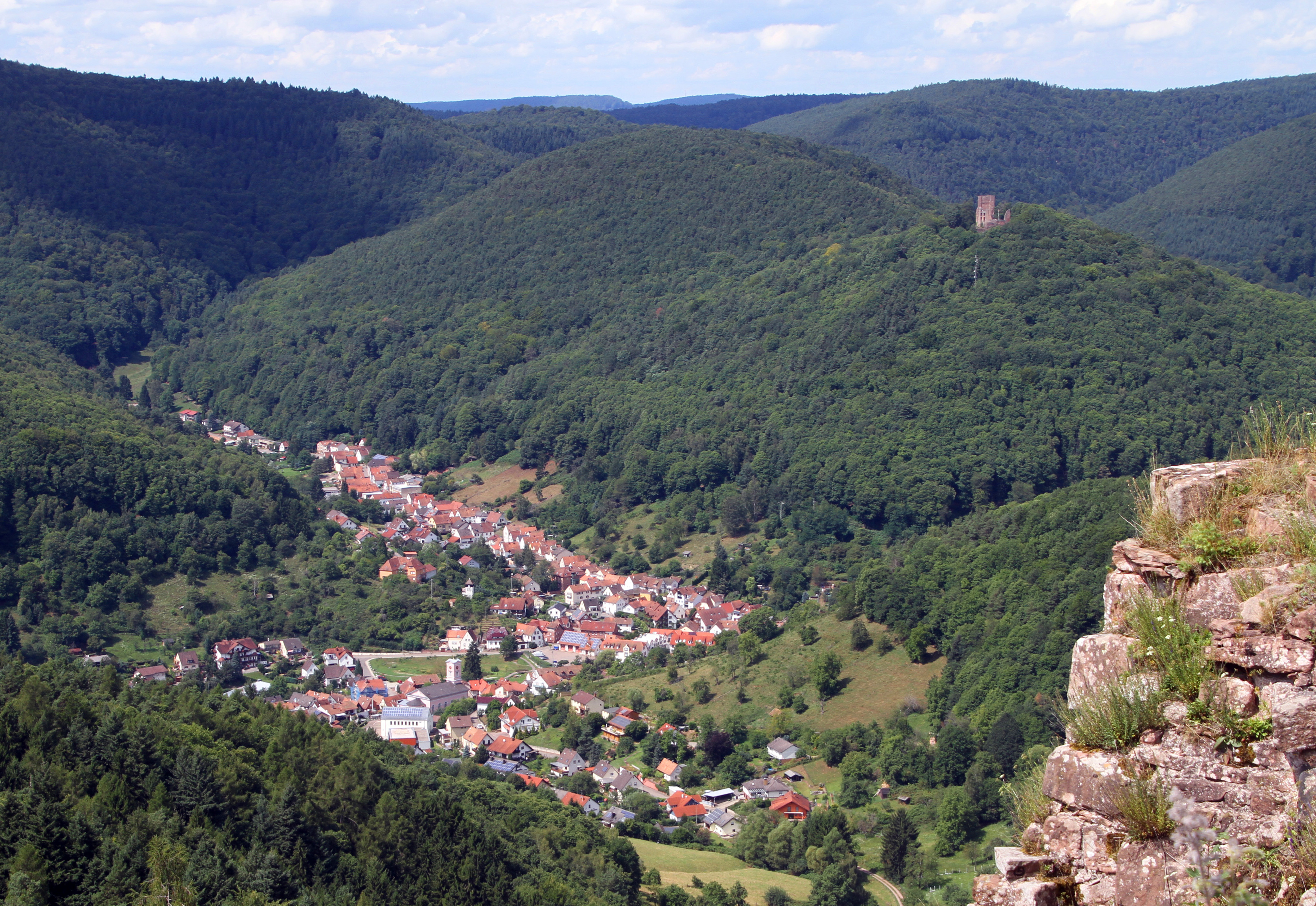 View of Ramberg (Pfalz) from Neuscharfeneck